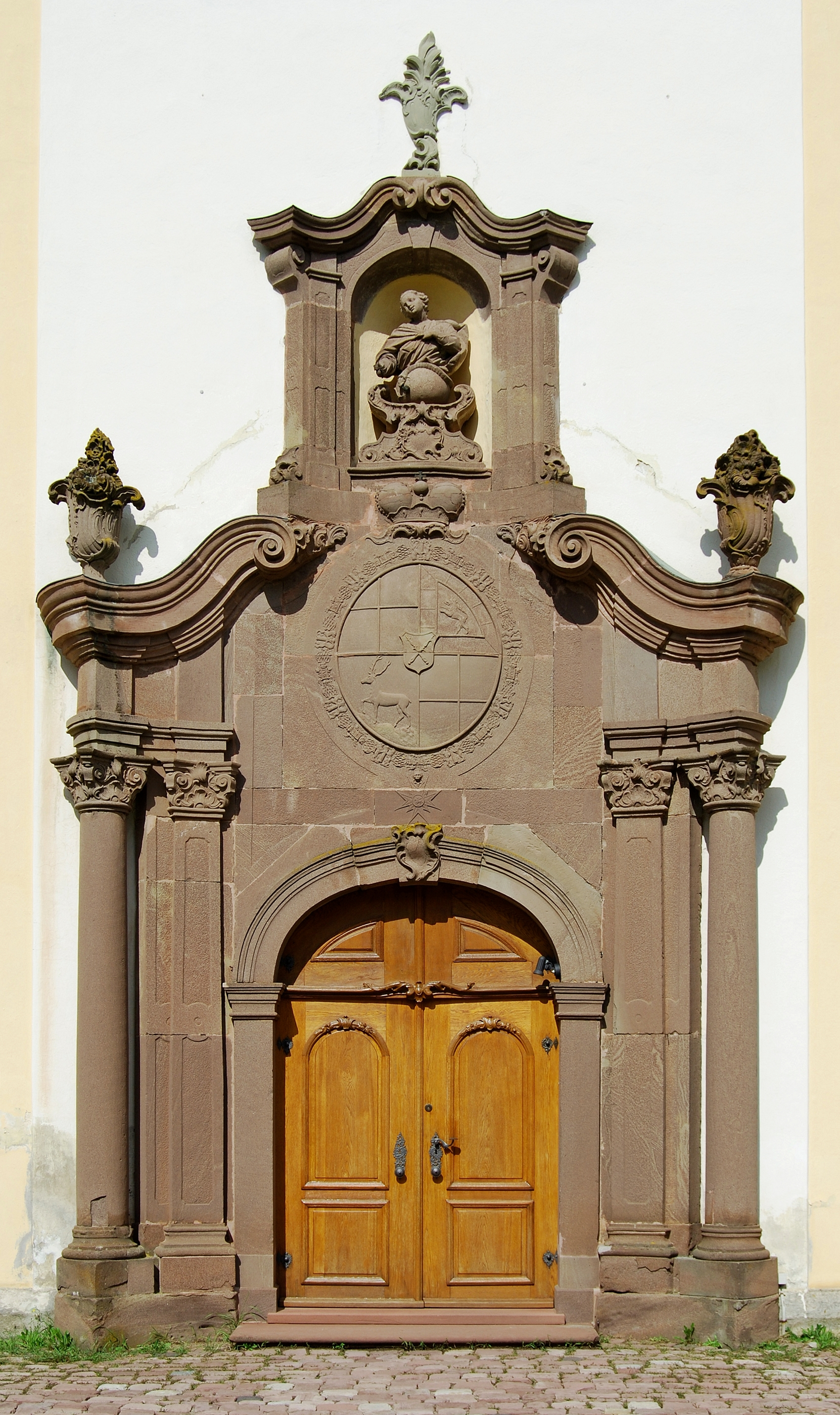 Portal of St Anna Church, Haigerloch